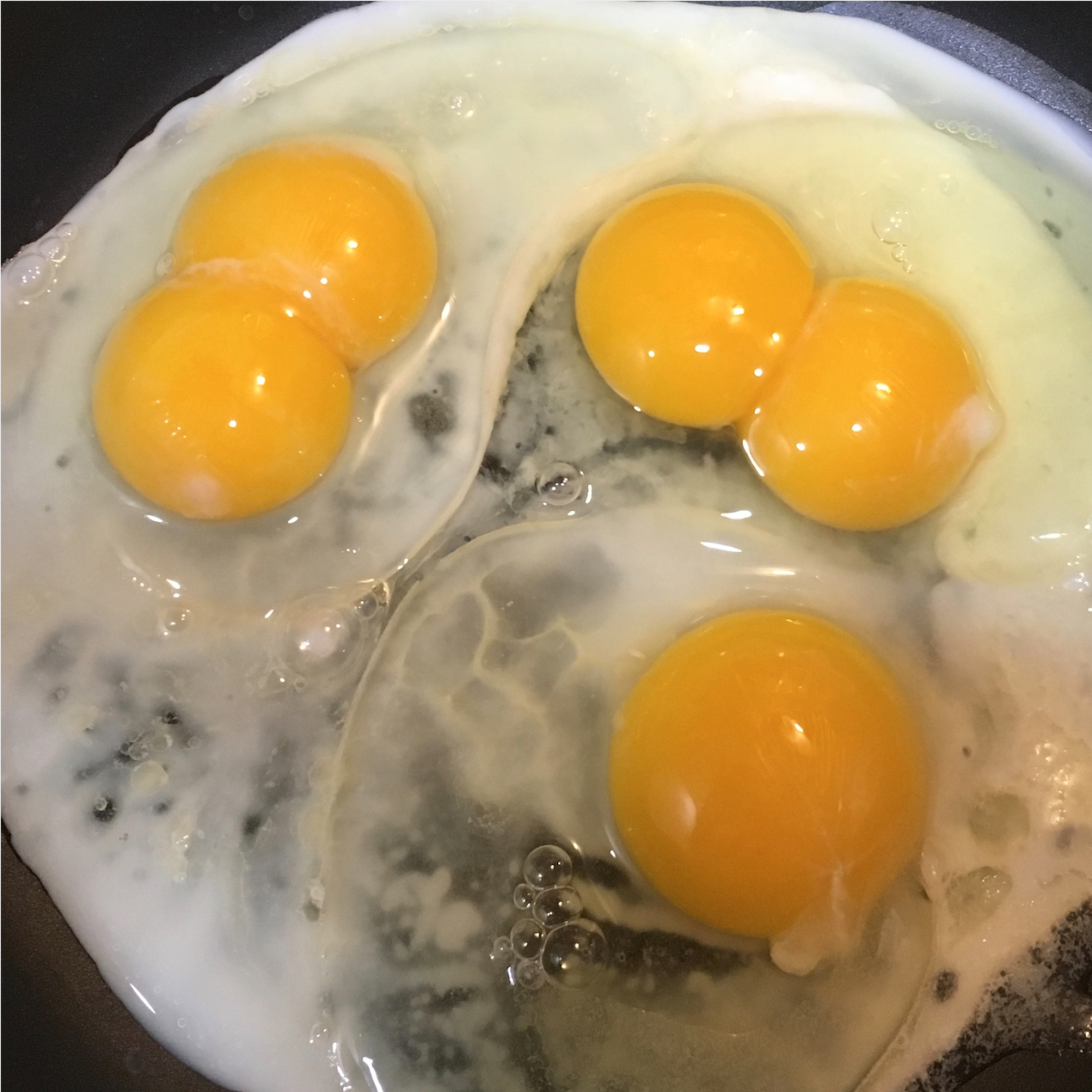 Three chicken (hen) eggs in a hot frying pan. One egg had a single yolk. Two eggs had double yolks.